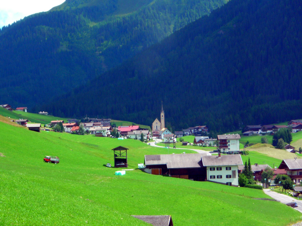 Kartitsch in East Tyrol